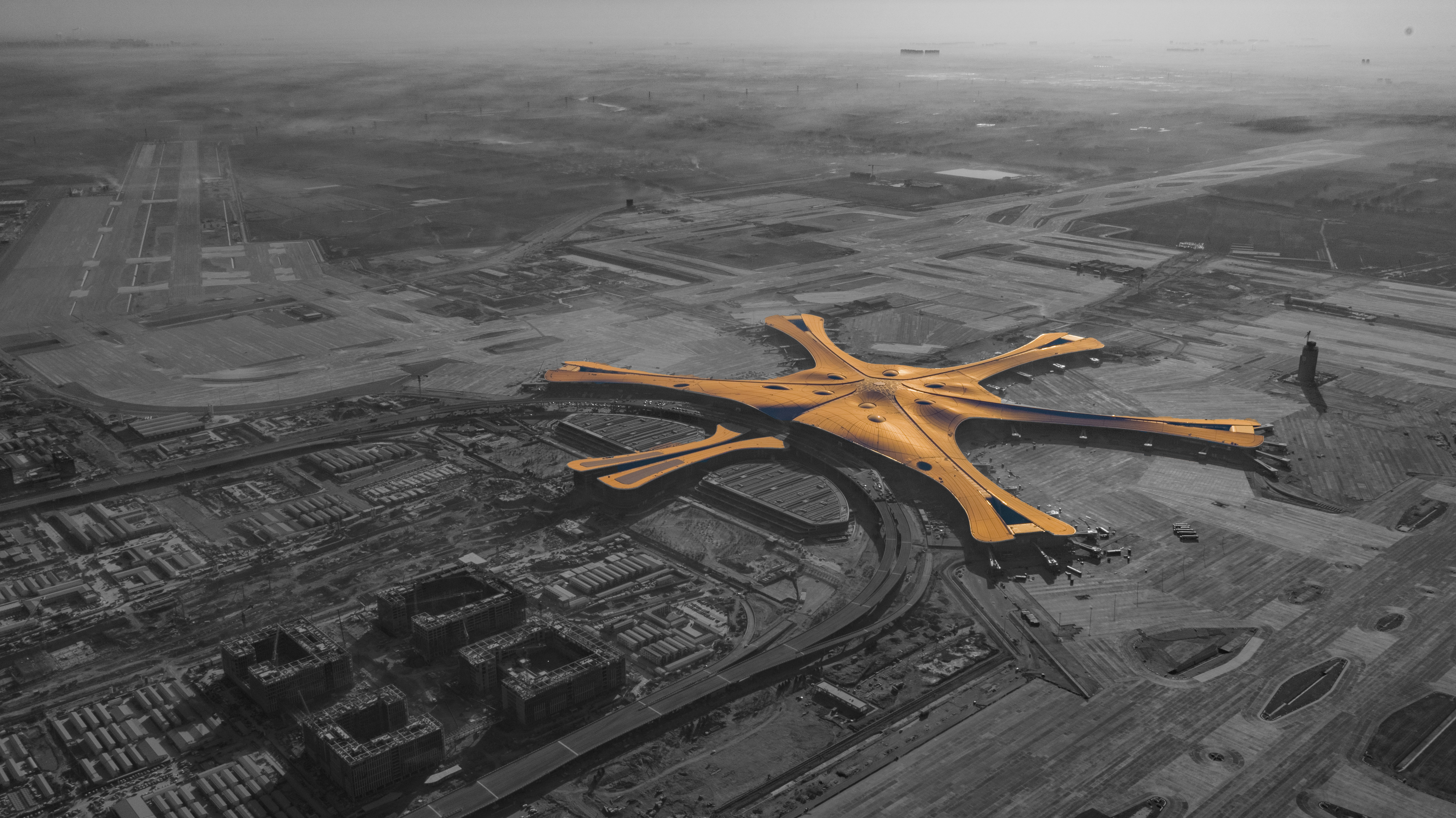 Beijing Daxing International Airport